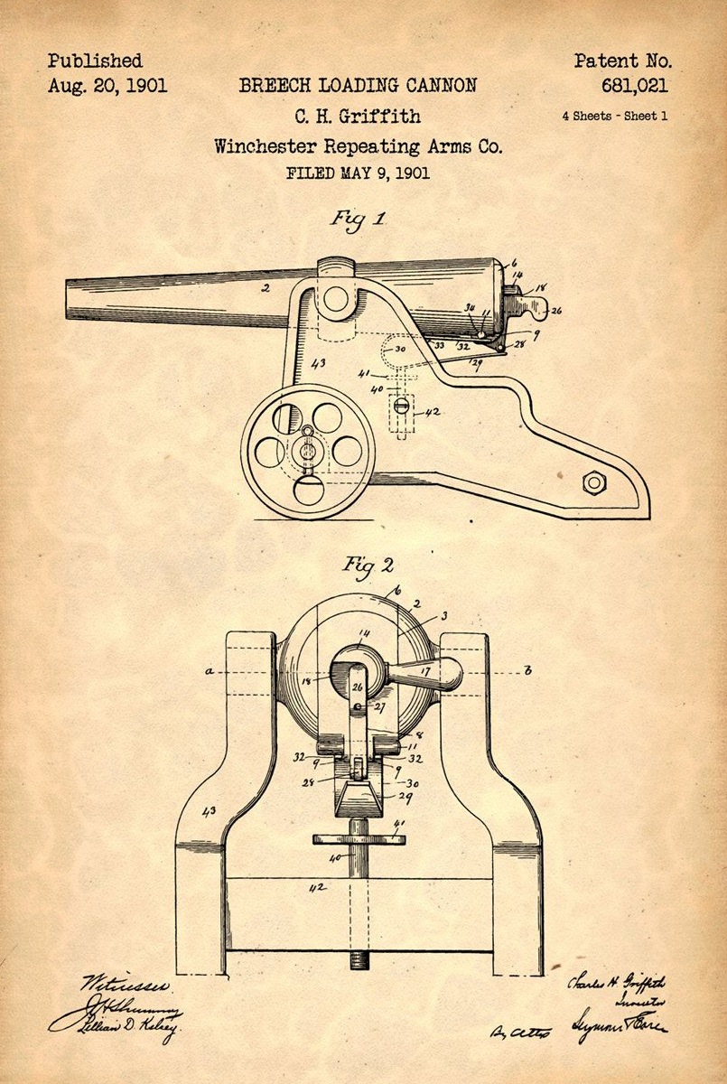 Winchester Breech Loading Cannon